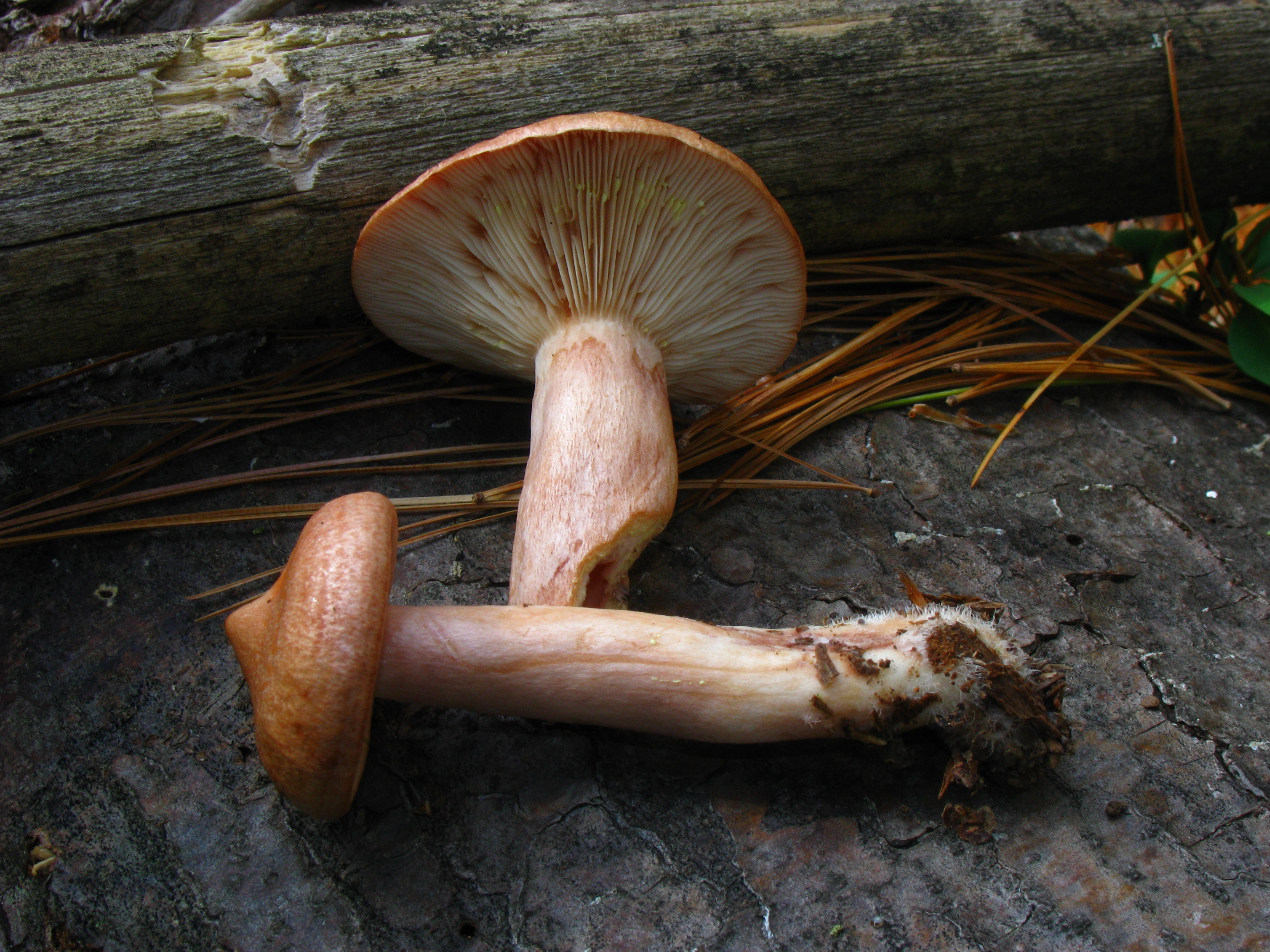 Collected in Strouds Run State Park, Athens, Ohio, USA